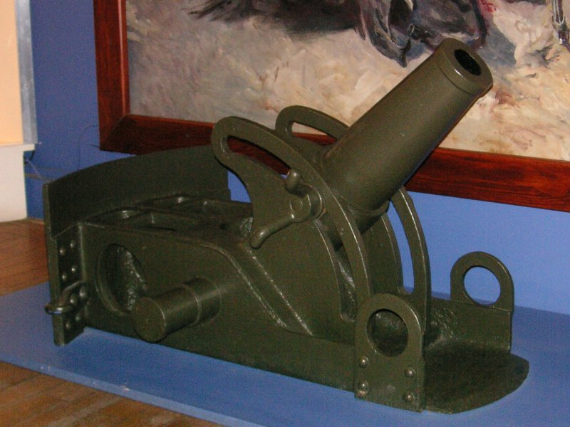 made during a summer day in Warsaw's Museum of the Polish Army; French WWI Dumesille system 58 mm trench mortar, used by the Polish Army in the Polish-Bolshevik War